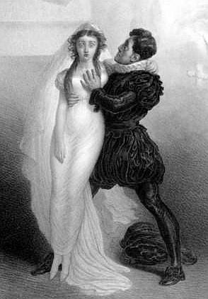 Charles Kemble (1775-1854) and Harriet Smithson (1800-1854) as Romeo and Juliet . Lithograph by François-Antoine Conscience(1795-1840). Note: This production of Shakespeare's play was staged at the Théâtre de l'Odéon in Paris in 1827 and was attended by Berlioz, who later married Harriet Smithson.